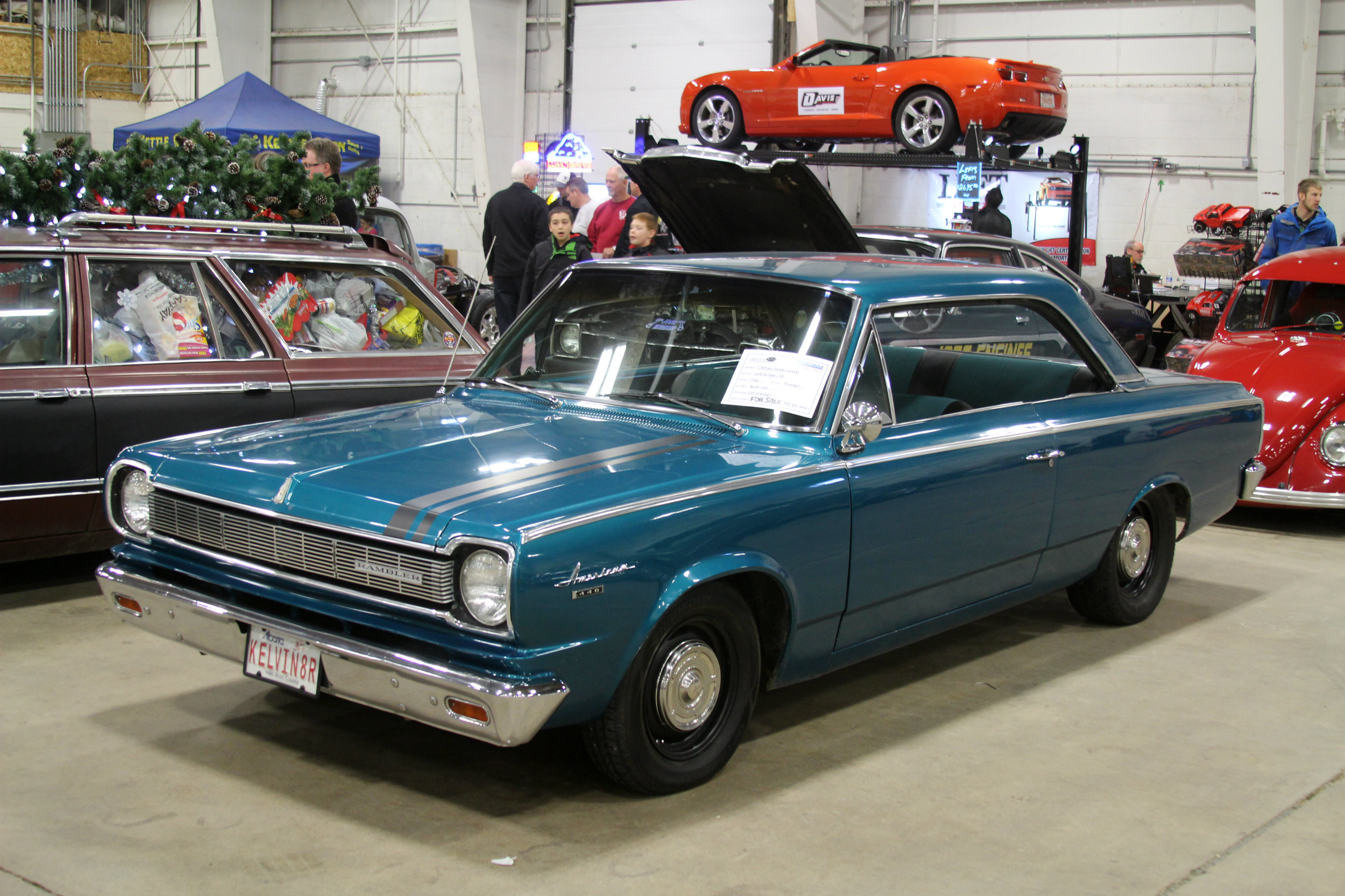 1966 Rambler American